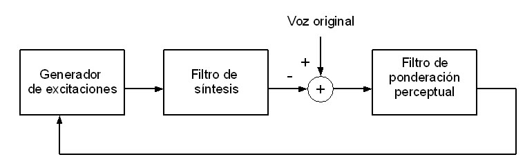 hybrid coder